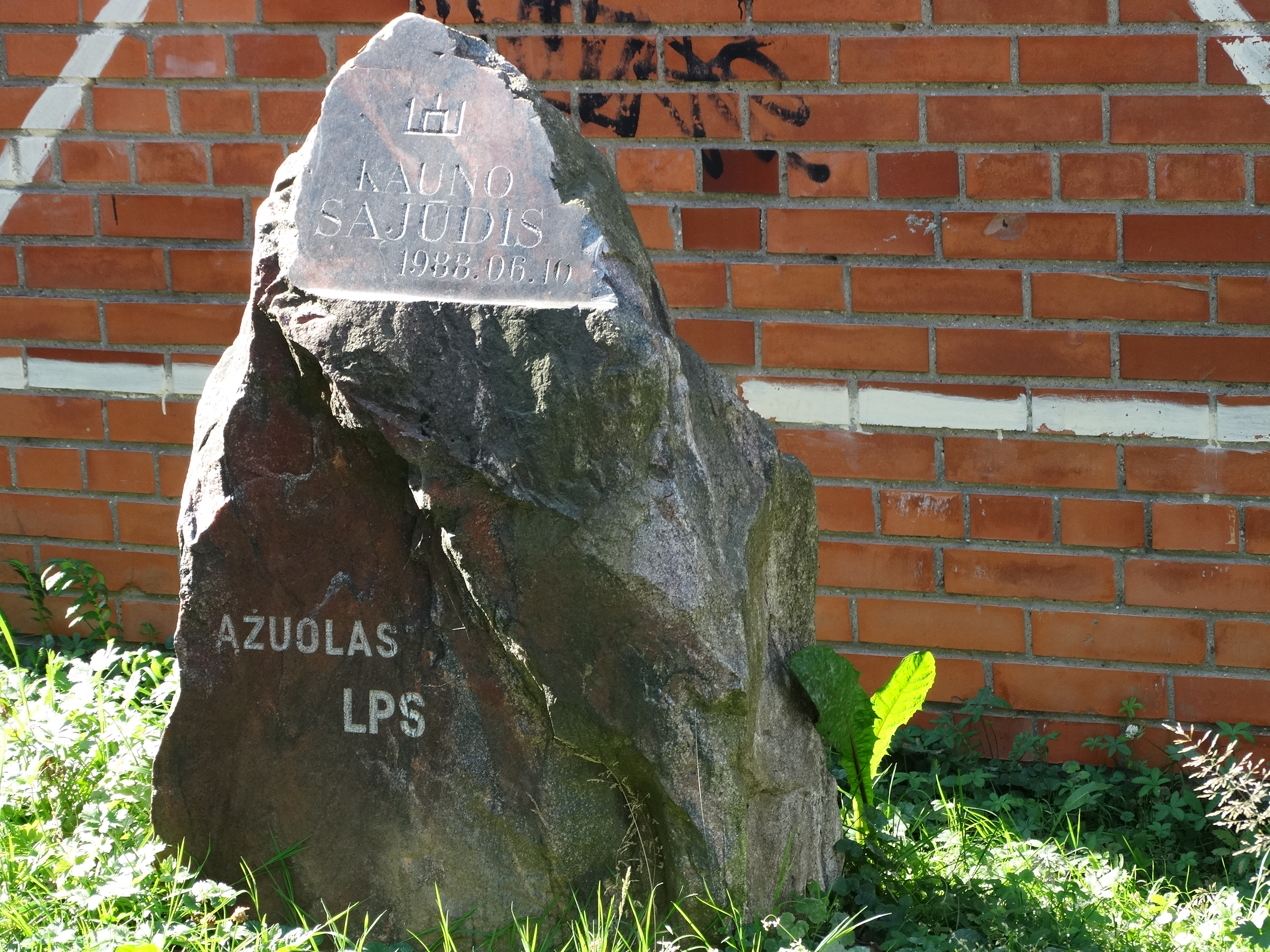 Stone to reform movement „Sąjūdis“ in Kaunas, Lithuania